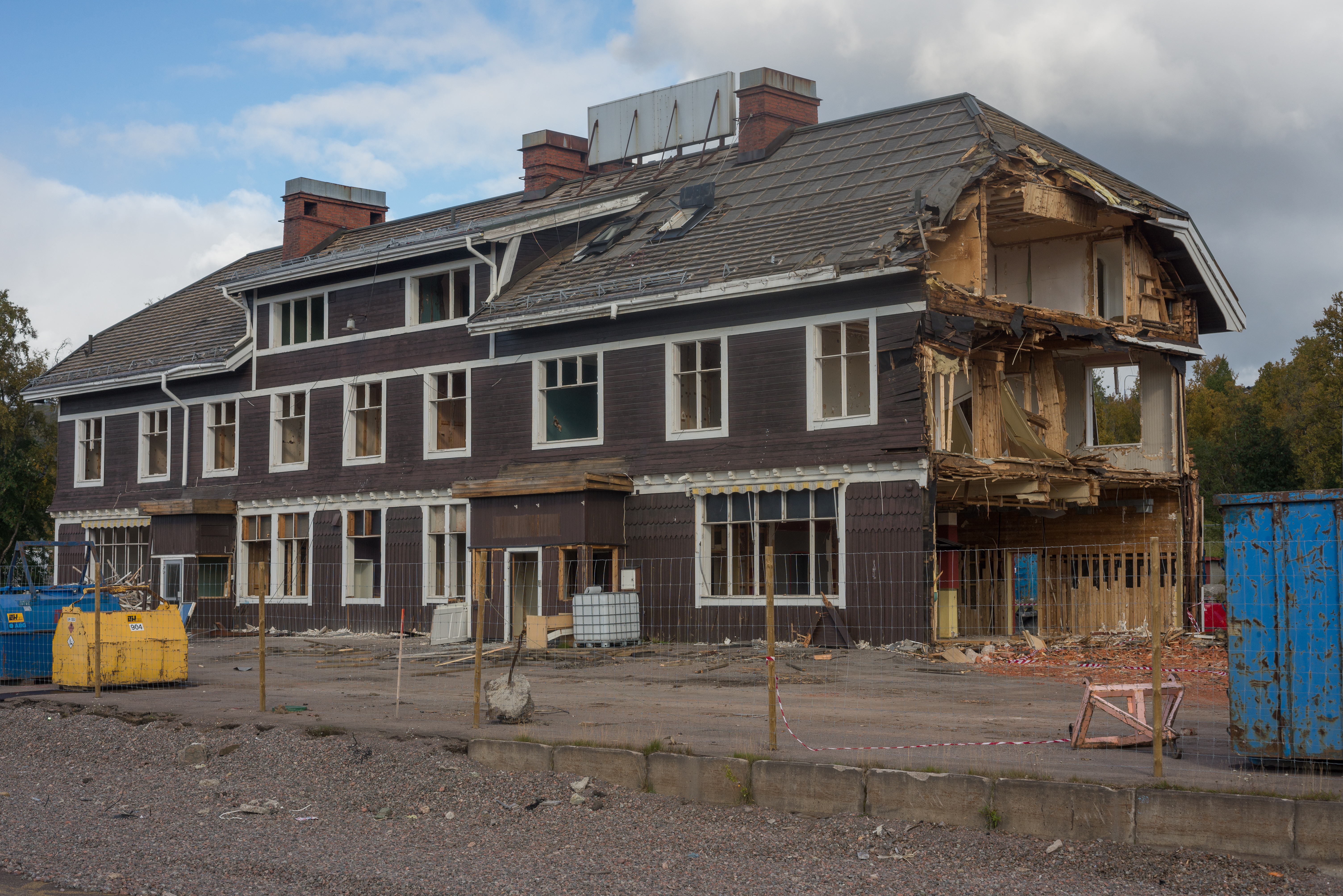 The former Railway hotel at Kiruna old station.